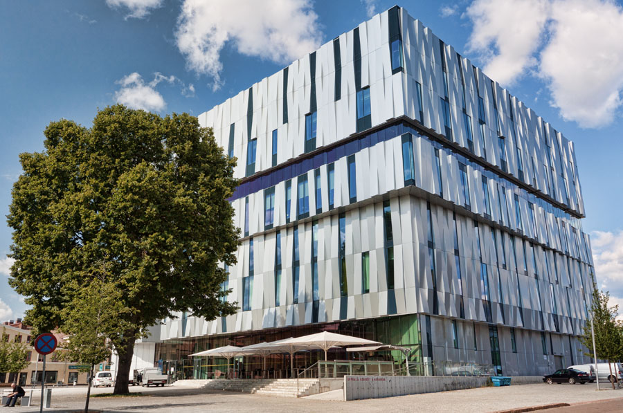 Modern architecture in Uppsala, Sweden, on a sunny summer day